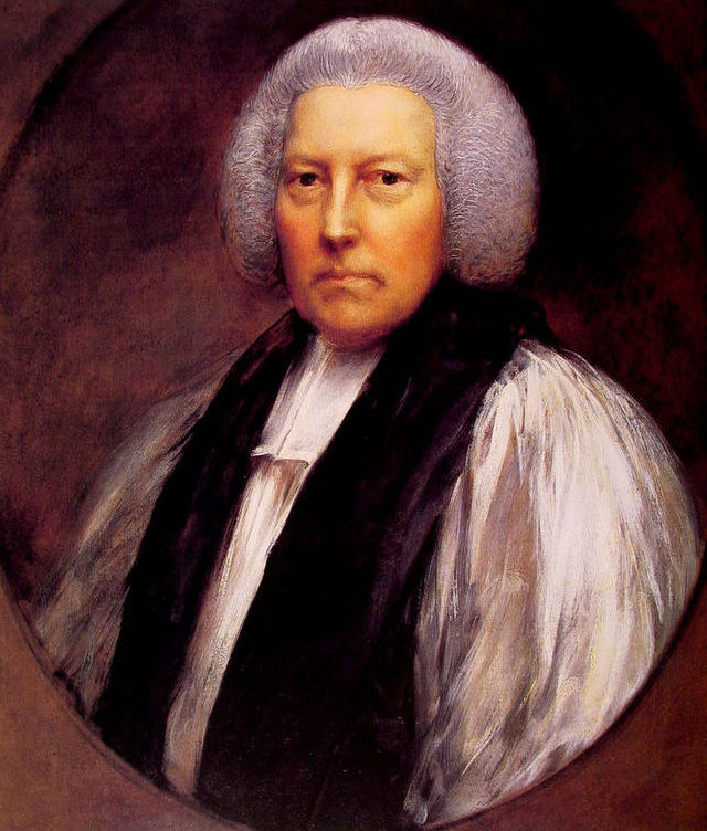 Portrait of Richard Hurd (1720-1808)